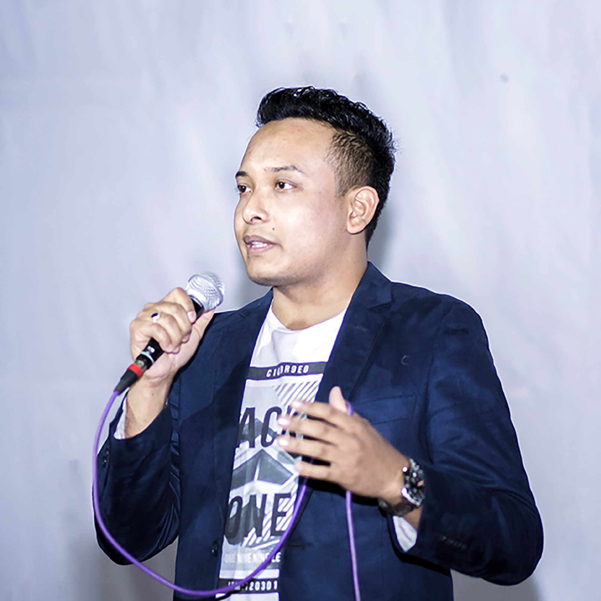 Edwin Haorokcham, the director of Tamna Tamna speaking about the video and his work.